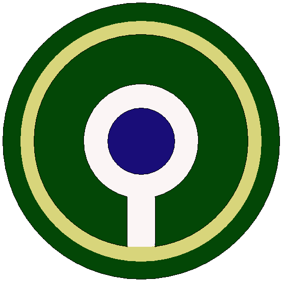 Shield pattern of the Pontinenses; Magister Peditum's infantry, the also assigned to his Italian command as the Pontenenses.